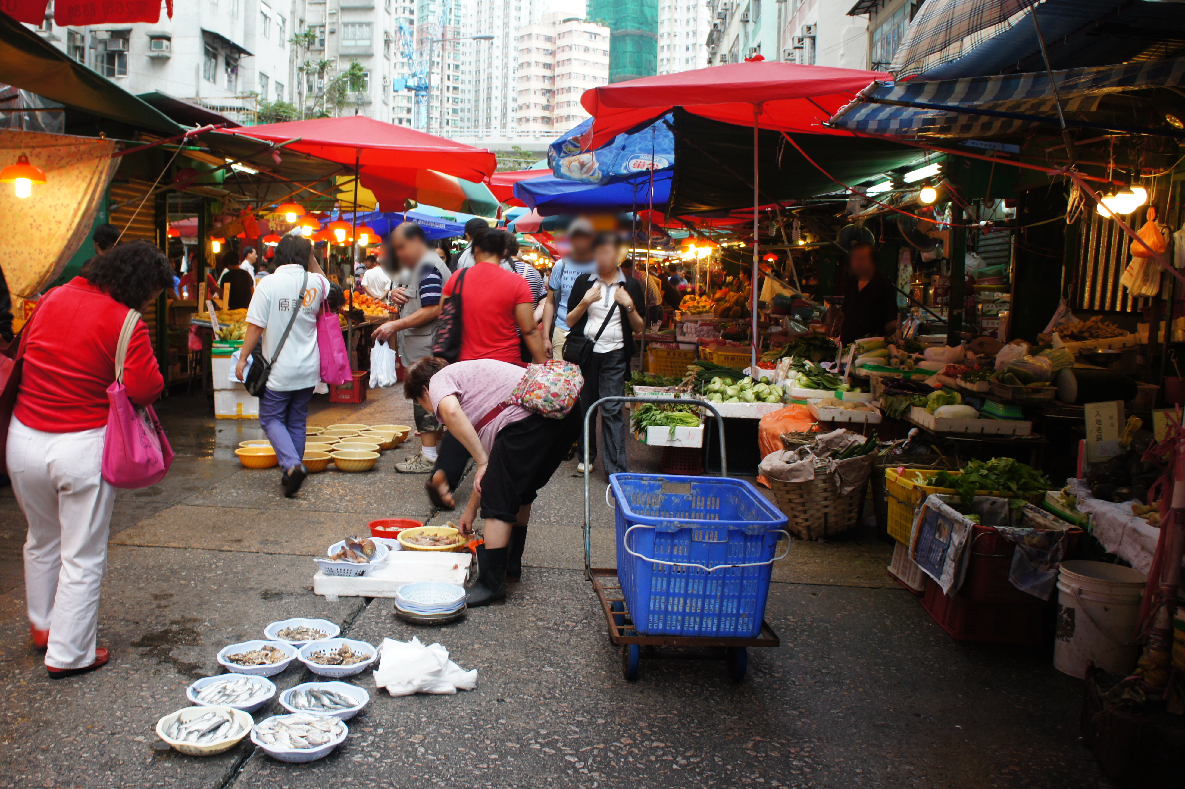 Kam Wa Street, Shau Kei Wan, Hong Kong.